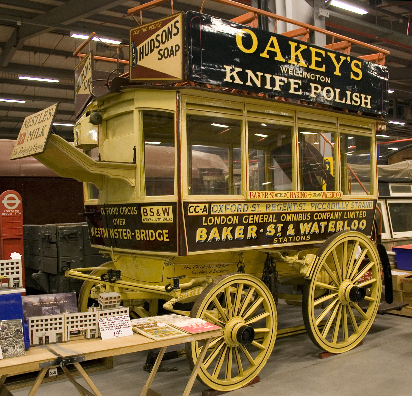 London General Omnibus Company horse bus. This example served the Baker Street to Waterloo route from around 1885 to 1911. It is now preserved at the London Transport Museum Depot.